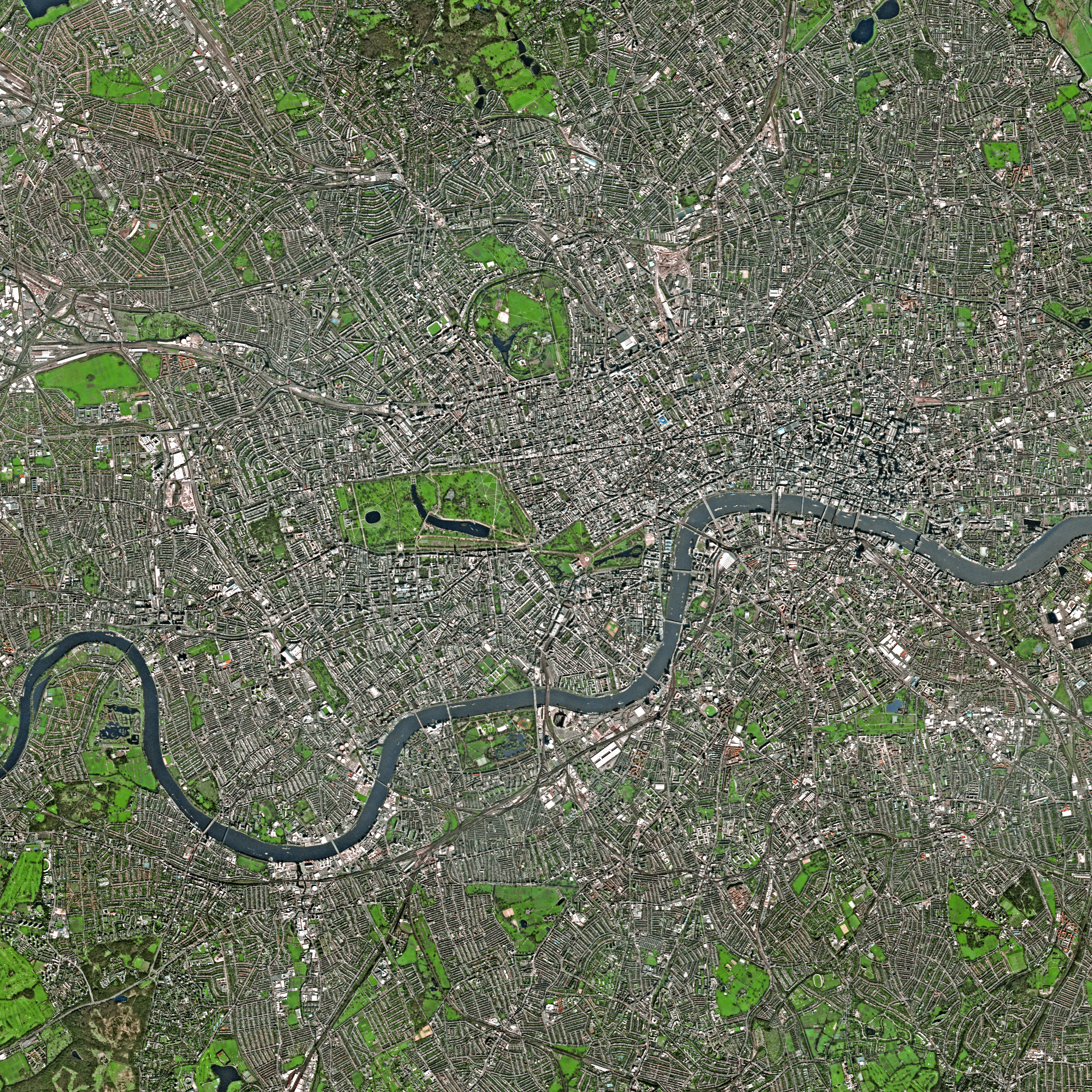 London by SPOT Satellite